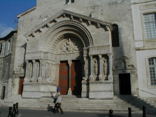 Portal of Cathedral of St. Trophime in Arles, representing the Last Judgment.